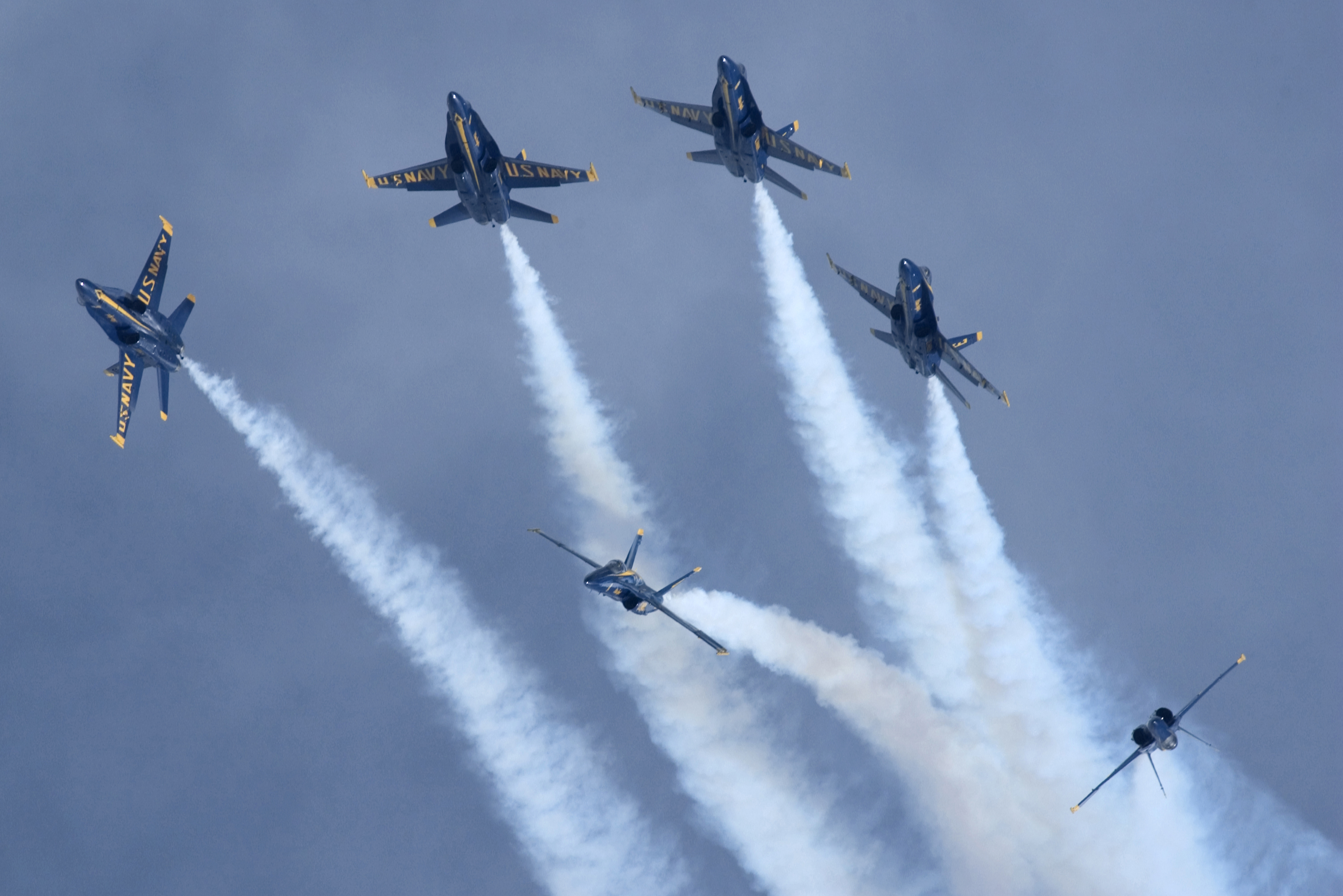 Chicago, Ill. (Aug. 22, 2004) - The U.S. Navy flight demonstration team, the "Blue Angels," delta formation performs the loop break crossover maneuver over Lake Michigan during the Chicago Air and Water Show. The Blue Angels fly the F/A-18A Hornet, performing approximately 30 maneuvers during the aerial demonstration lasting over an hour. U.S. Navy photo by Photographer’s Mate 2nd Class Ryan J. Courtade (RELEASED)